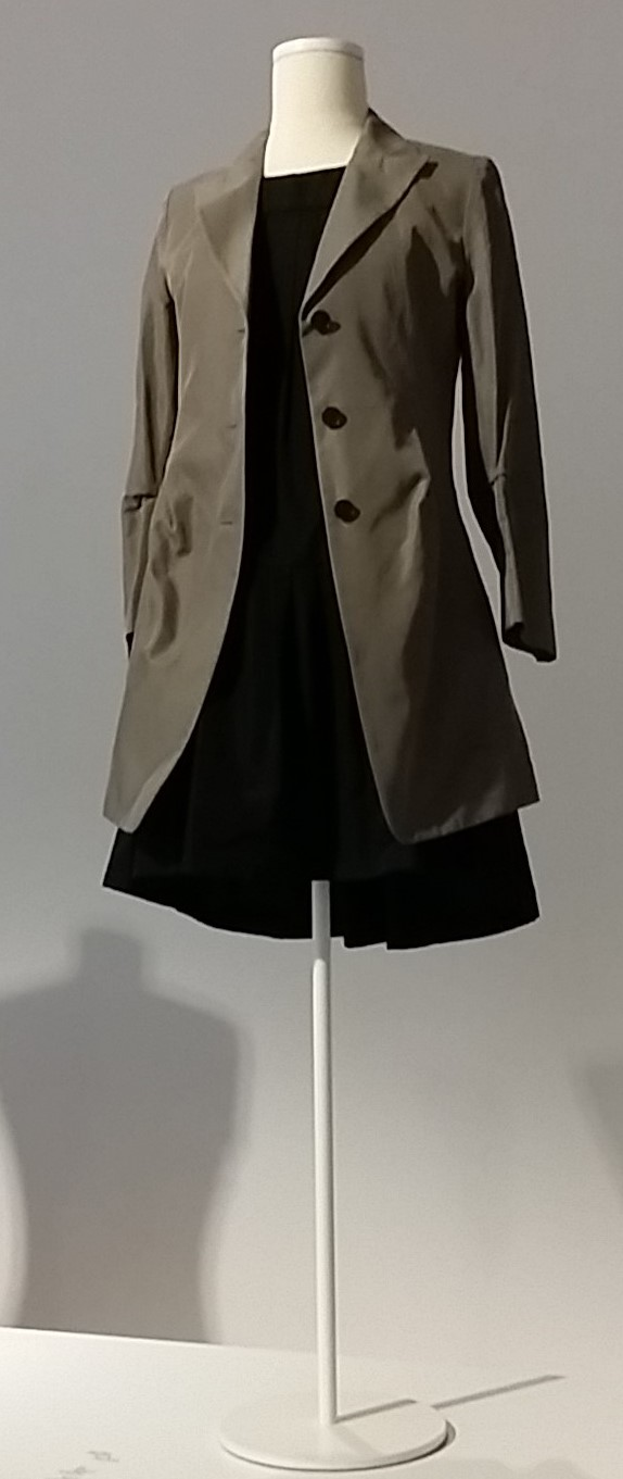 Ensemble by Jil Sander for her J+ line for UNIQLO, Spring-Summer 2011. Black polyester jersey dress and cotton blend gabardine jacket.